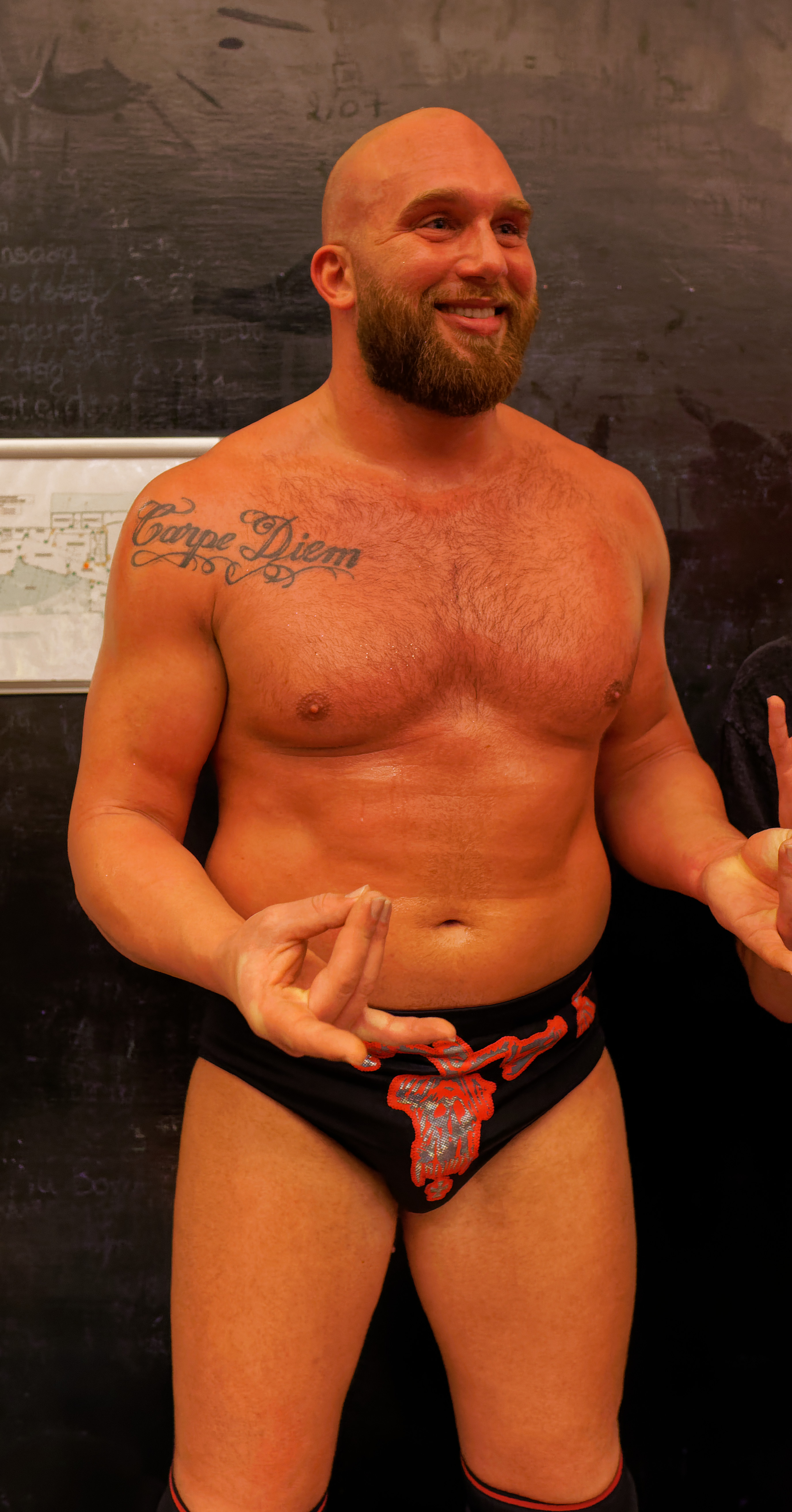 Relentless - Fight Like It's Christmas - Divers Photos diverses prisent avant et apres le show. Various photos taken before and after the show. ( After the sold out first show, Relentless will be back in Antwerp December 13th! )